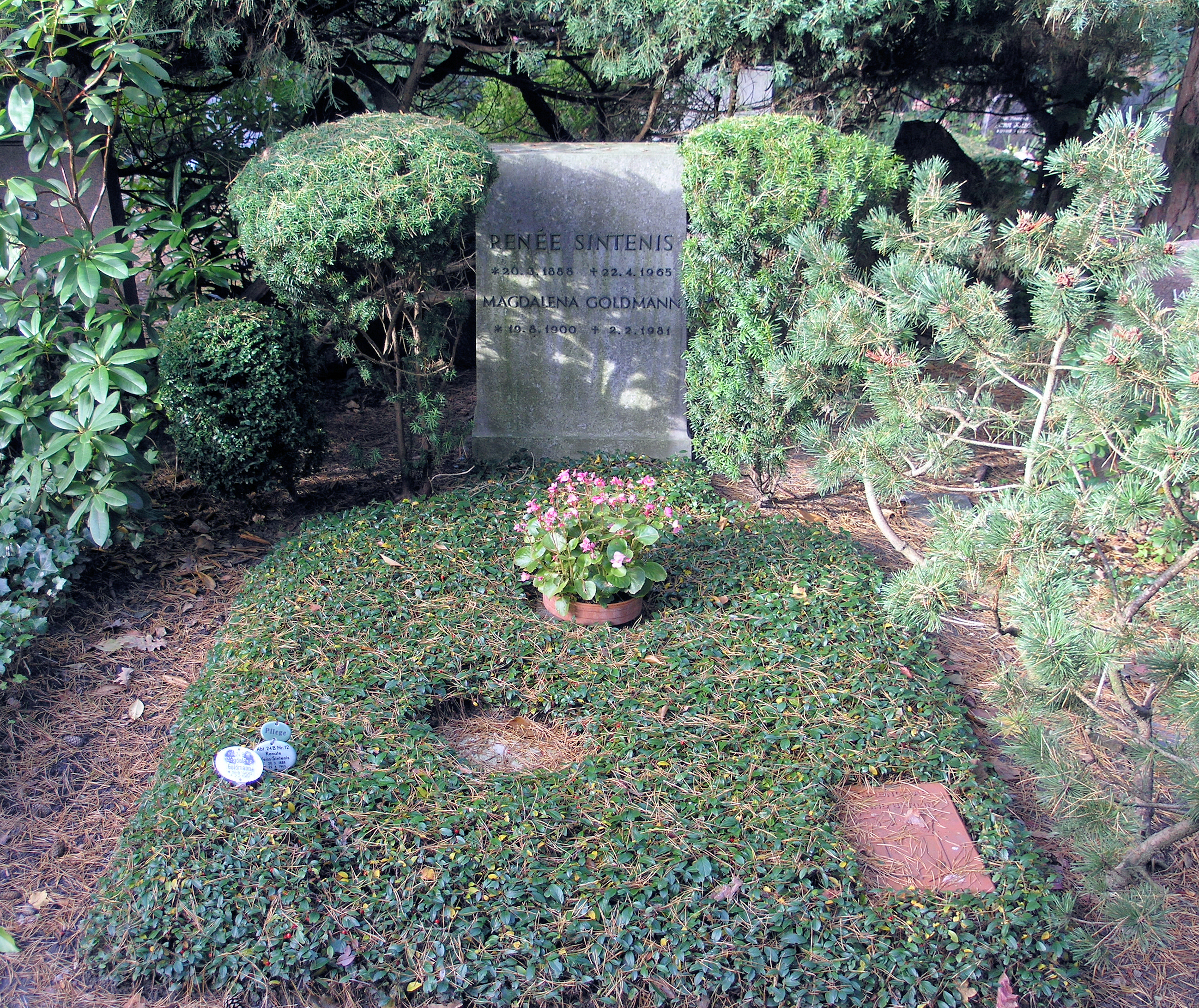 "Ehrengrab" (grave of honor), Renée Sintenis, Hüttenweg 47, Berlin-Dahlem, Germany Koordinate:52°27′20″N 13°15′49″E / 52.45556°N 13.26361°E